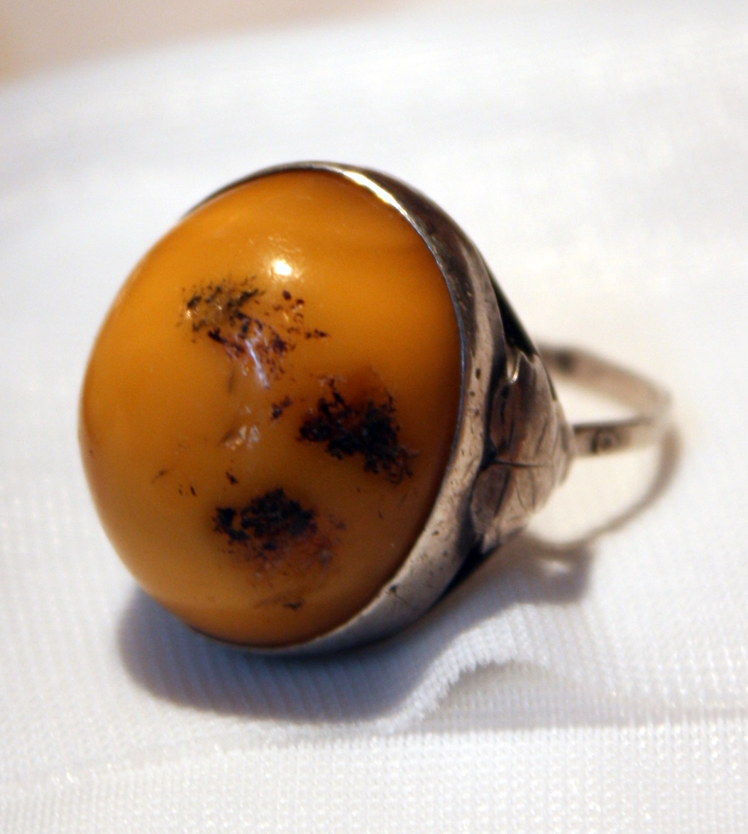 Jantar, Amber Museum